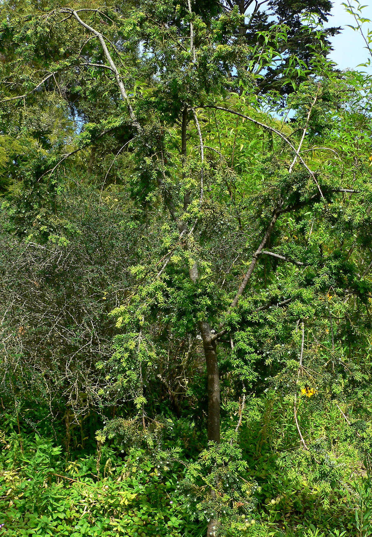 Photo of Saxegothaea conspicua at the San Francisco Botanical Garden